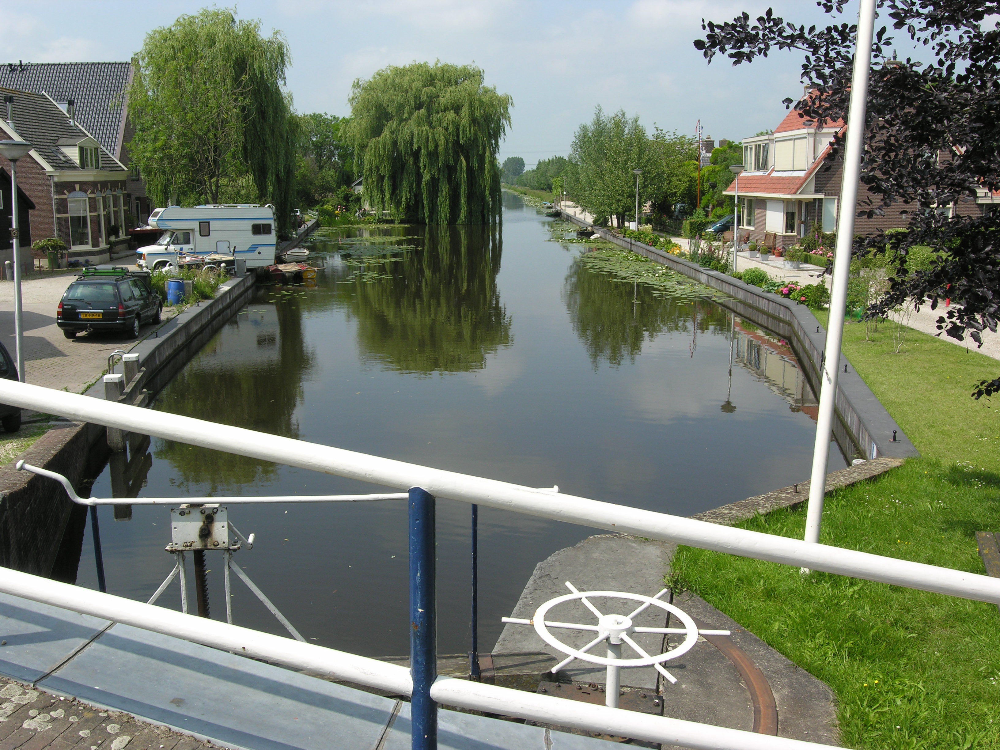 DSCN7369 See where this picture was taken. [?]